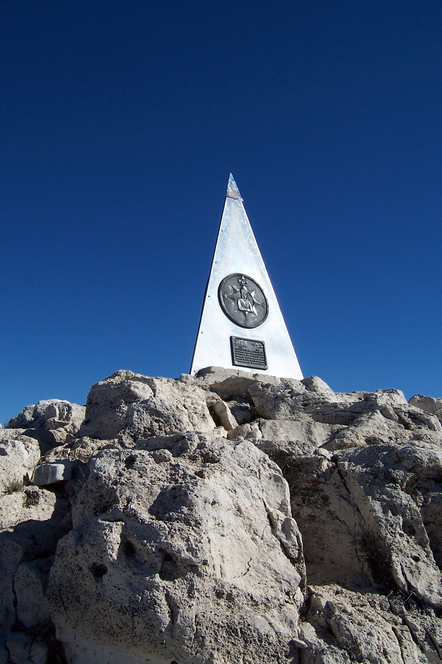 Monument on the summit of Guadalupe Peak in Guadalupe Mountains National Park, Texas.